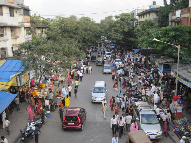 Chembur Market as seen from the east.